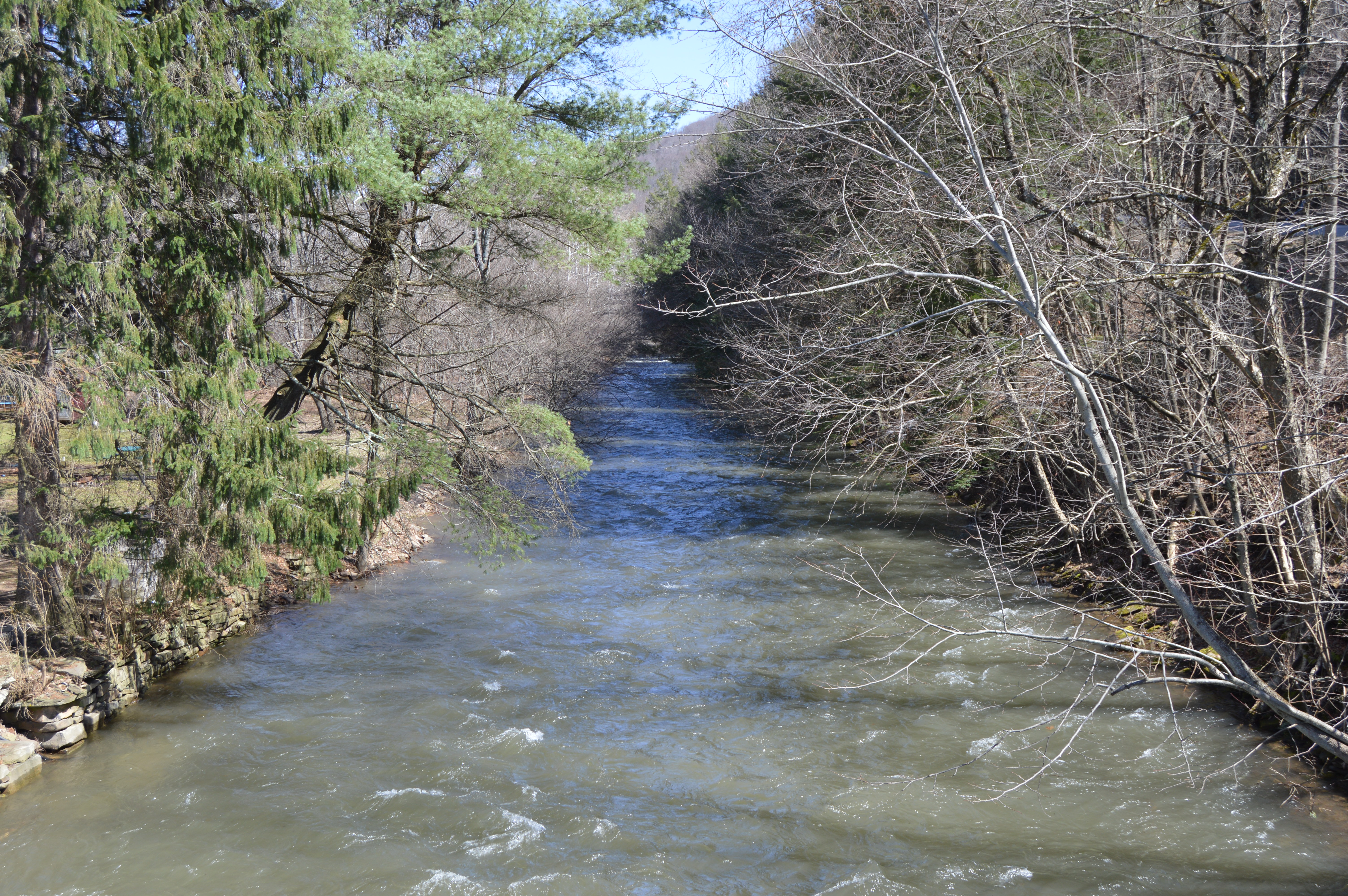 Looking upstream along the East Fork of Sinnemahoning Creek at Wharton in Wharton Township, Potter County, Pennsylvania, United States. Photo is taken from the East Fork Road bridge, about 500 feet upstream of where the creek joins the First Fork Sinnemahoning Creek.